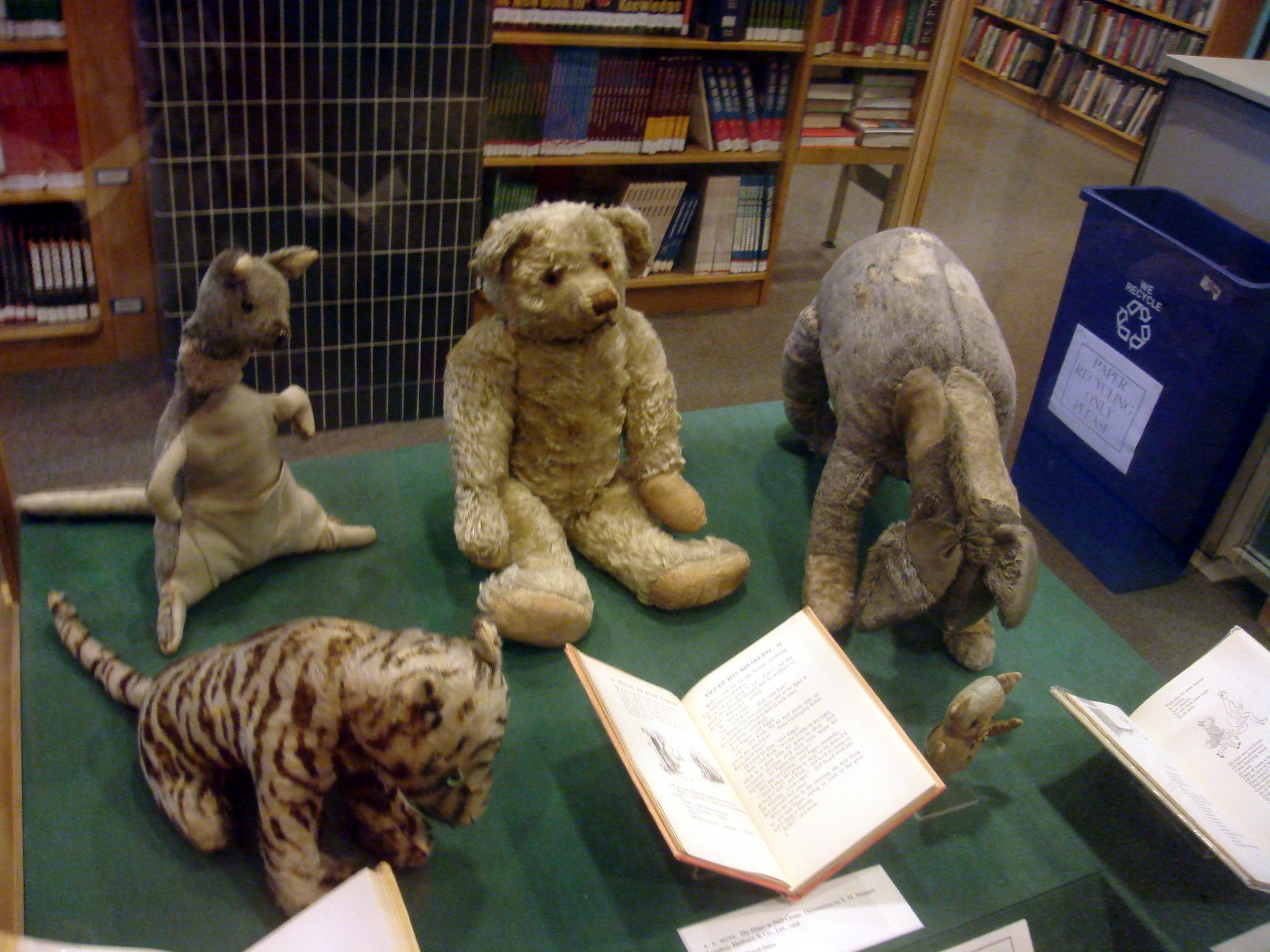 Original Winnie-the-Pooh stuffed toys. Clockwise from bottom left: Tigger, Kanga, Edward Bear (a.k.a Winnie-the-Pooh), Eeyore, and Piglet. Roo was also one of the original toys but he was lost during the 1930s in an apple orchard somewhere in Sussex. Owl and Rabbit were not based on toys. Gopher was made up for the Disney version.